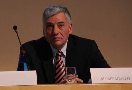 portrait of Mario Pappagallo